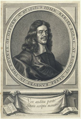 Portrait of John Kersey (1616-1690?).